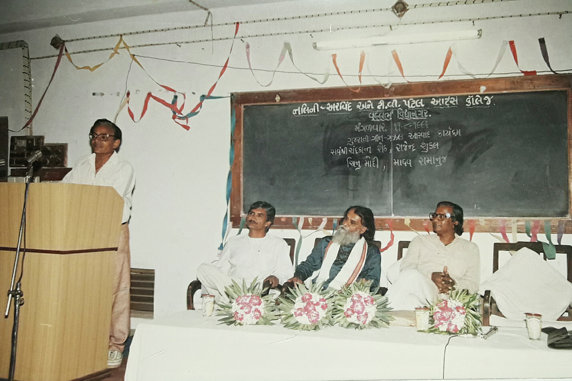 Gujarati poets, from left Chinu Modi (on mike), Madhav Ramanuj, Rajendra Shukla and Chandrakant Sheth at Nalini-Arvind and T. V. Patel Arts College, Vallabh Vidyanagar, Gujarat on 11 August 1992